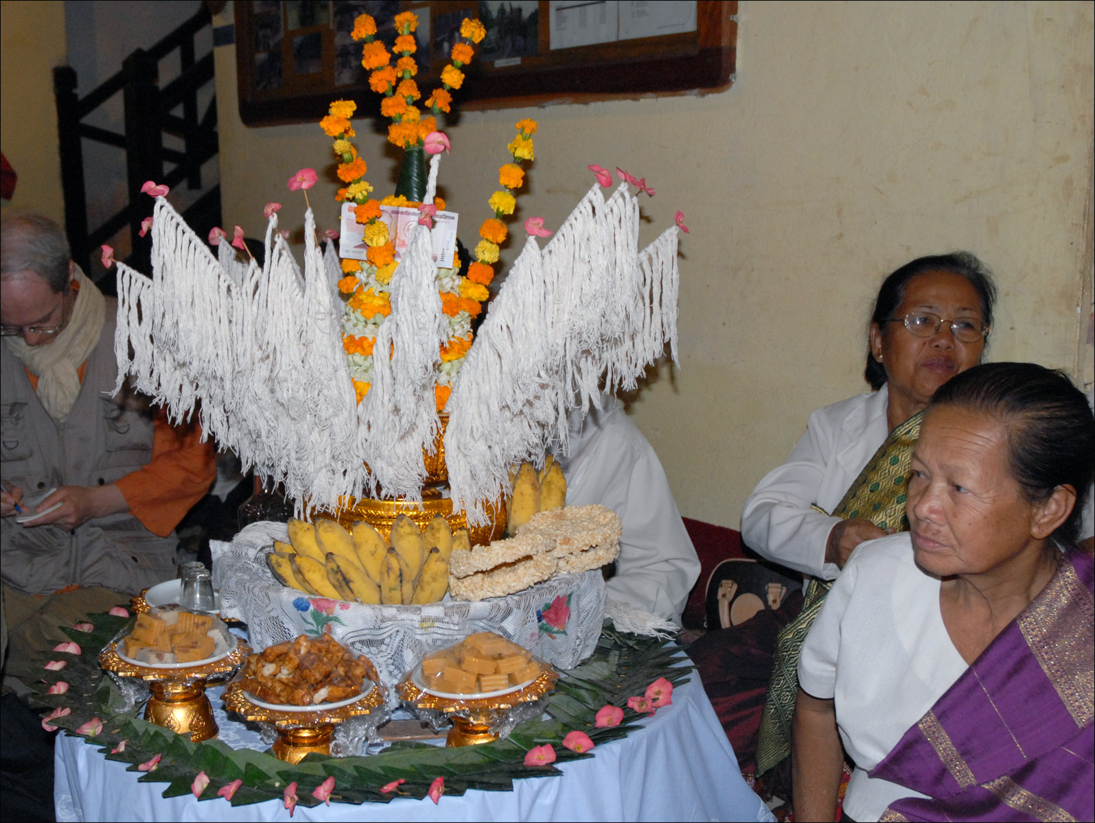 Baci ceremony, Luang Prabang, Laos